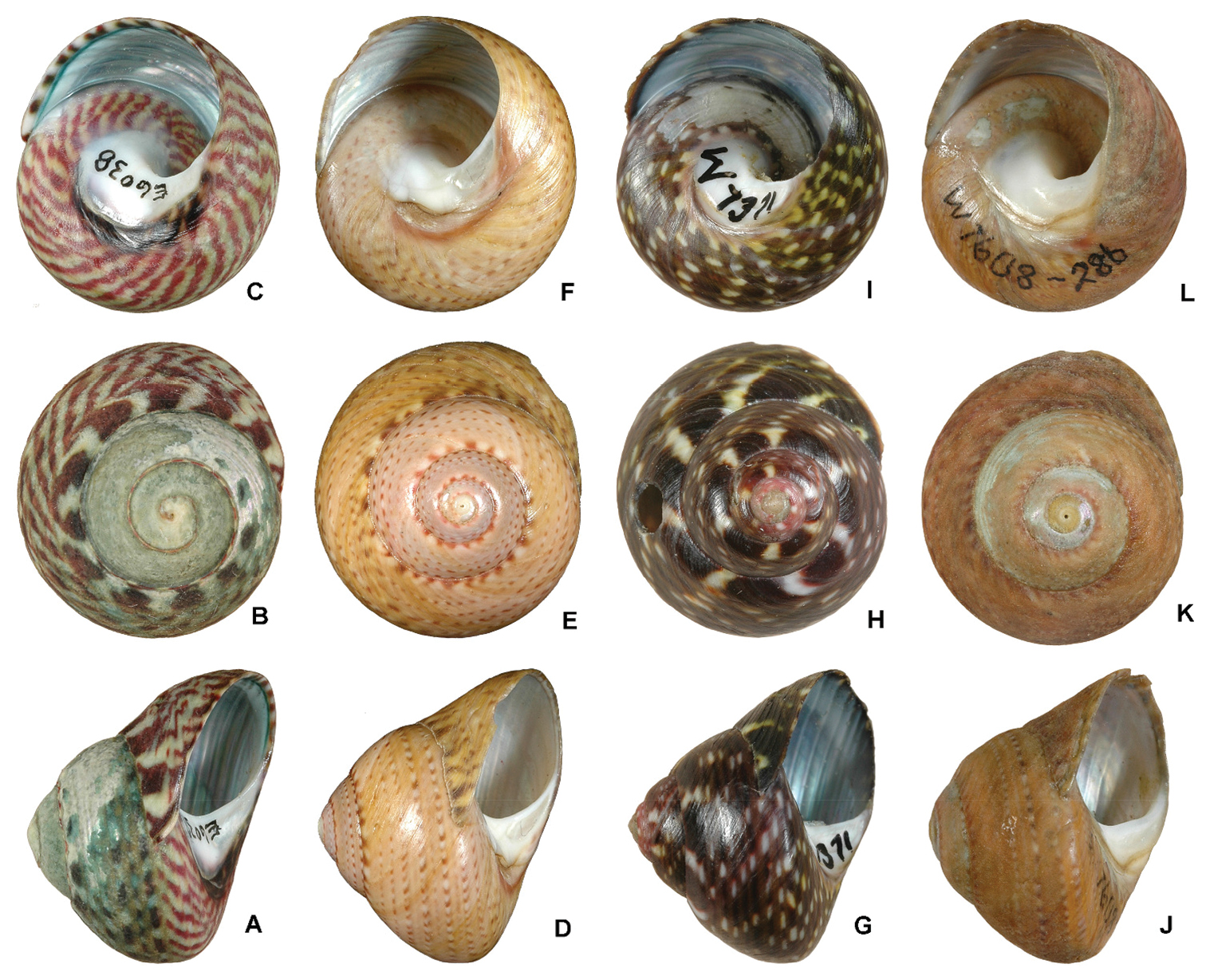 Patterns of shell colour within the genus Oxystele. A–C Oxystele variegata from Namibia, 5 km north of Swakopmund, diameter 22.2 mm (NMSA E6038) D–F Oxystele impervia from the Western Cape, Groen Rivier, diameter 22.3 mm (NMSA E7353) G–I Oxystele sp. from theEastern Cape, Tsitsikamma National Park, diameter 16.5 mm (HVDBM058-10, NMSA W7371); the colour pattern of these specimens suggests Oxystele variegata, but these specimens group within the unit of Oxystele impervia J–L Oxystele sp. from the Northern Cape, Noup, diameter 18.0 mm (HVDBM185-10, NMSA W7608); the colour pattern suggests Oxystele impervia, but they group with Oxystele variegata (see Figure 4 and Appendix 2 for the phylogenetic groupings of these specimens and node supports; these groupings contradict their morphological identification).